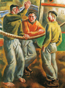 Basque Fishermen